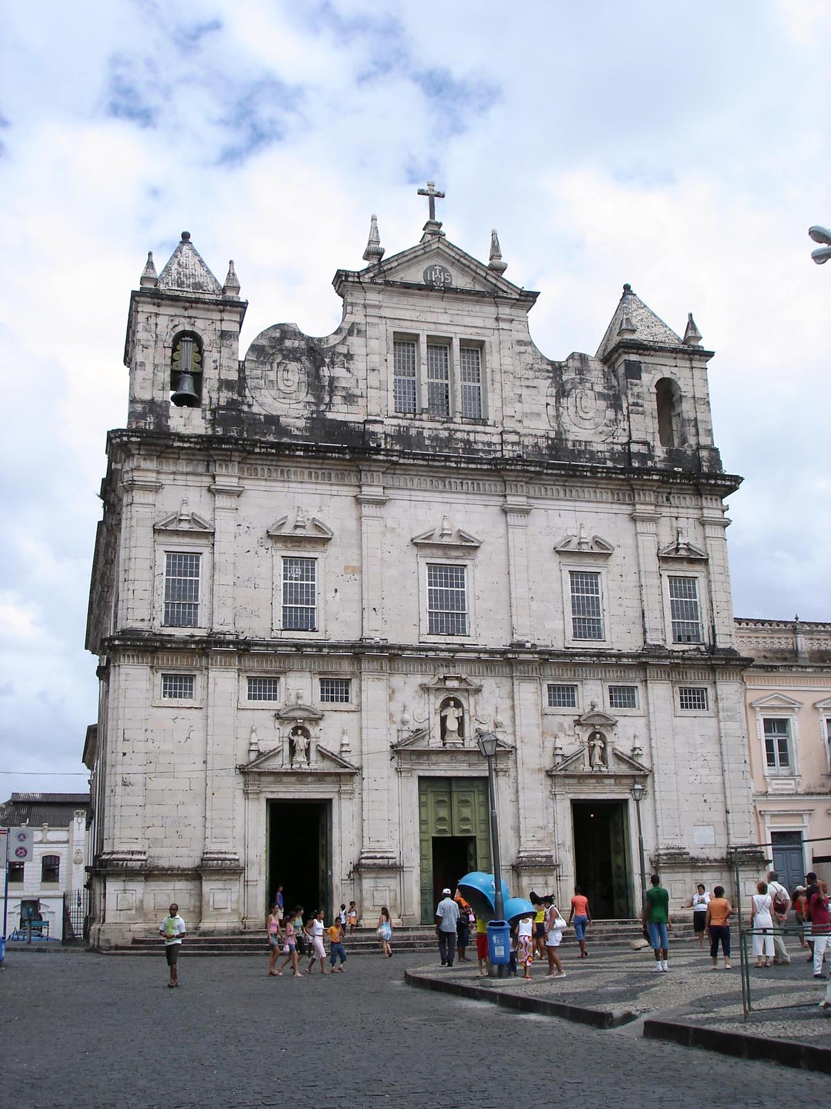 Salvador Cathedral, Bahia, Brazil